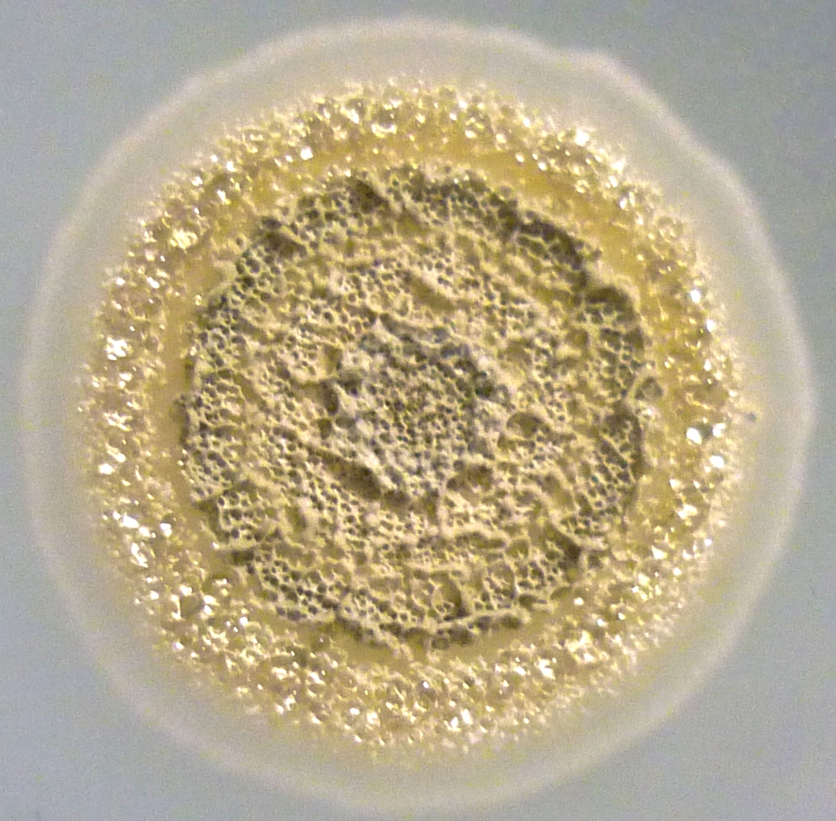 Streptomyces sp. isolated from the Boho soil, County Fermanagh